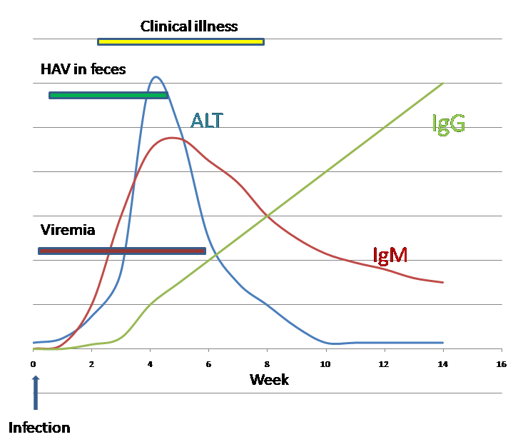 Antibody responses to Hepatitis A virus infection